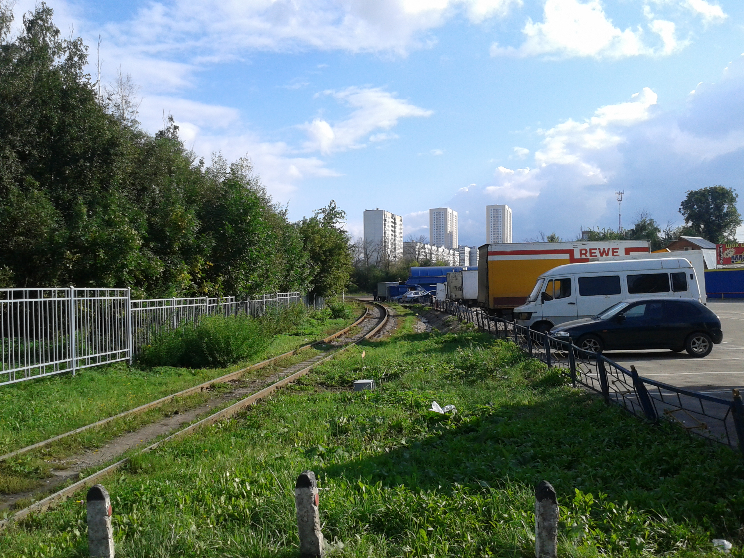 Railway to the Nord Water Station of Moscow